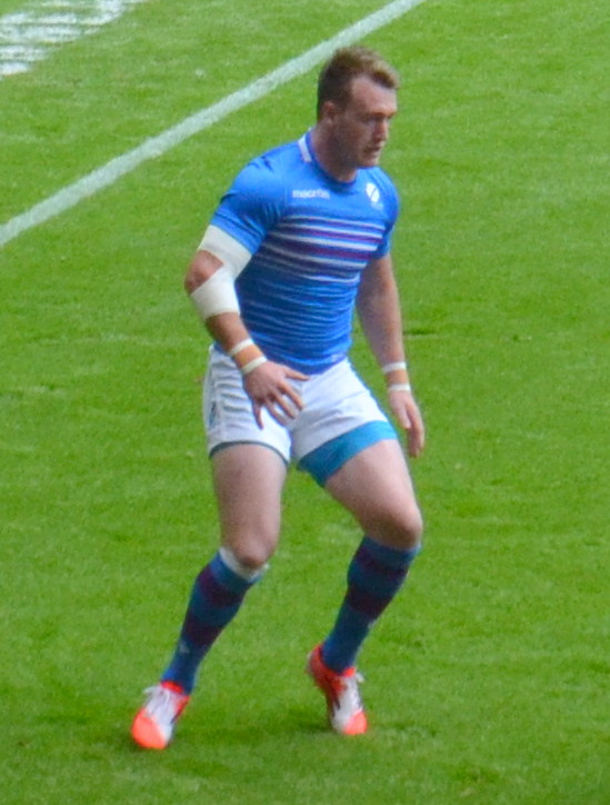 Scottish rugby union footballer Stuart Hogg as playing for Scotland Sevens against New Zealand's Sevens at the 2014 Commonwealth Games.